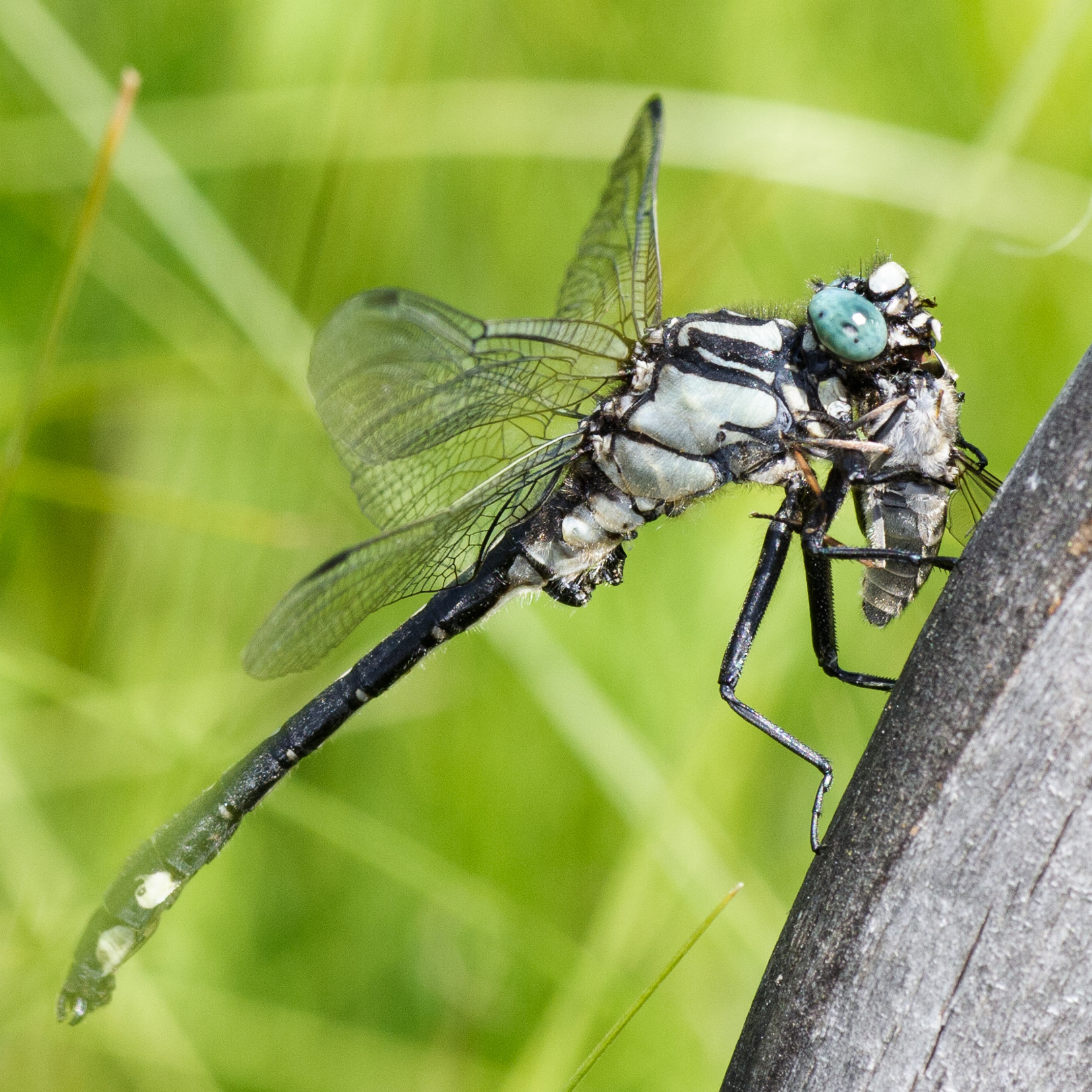 The common club-tail Gomphus vulgatissimus with a prey. Rospuda River Valley (cropped original image).